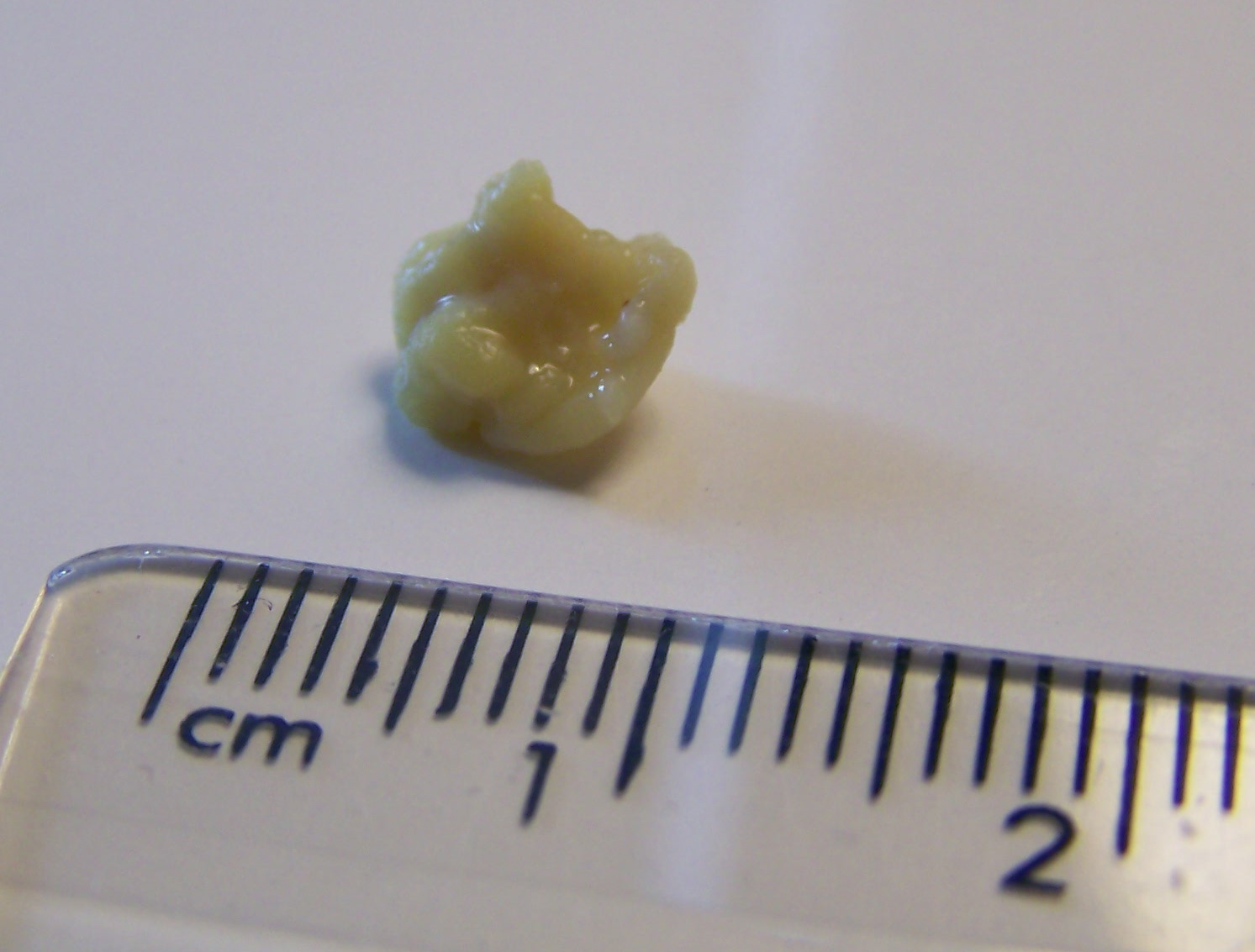 Close up of tonsillolith with ruler.